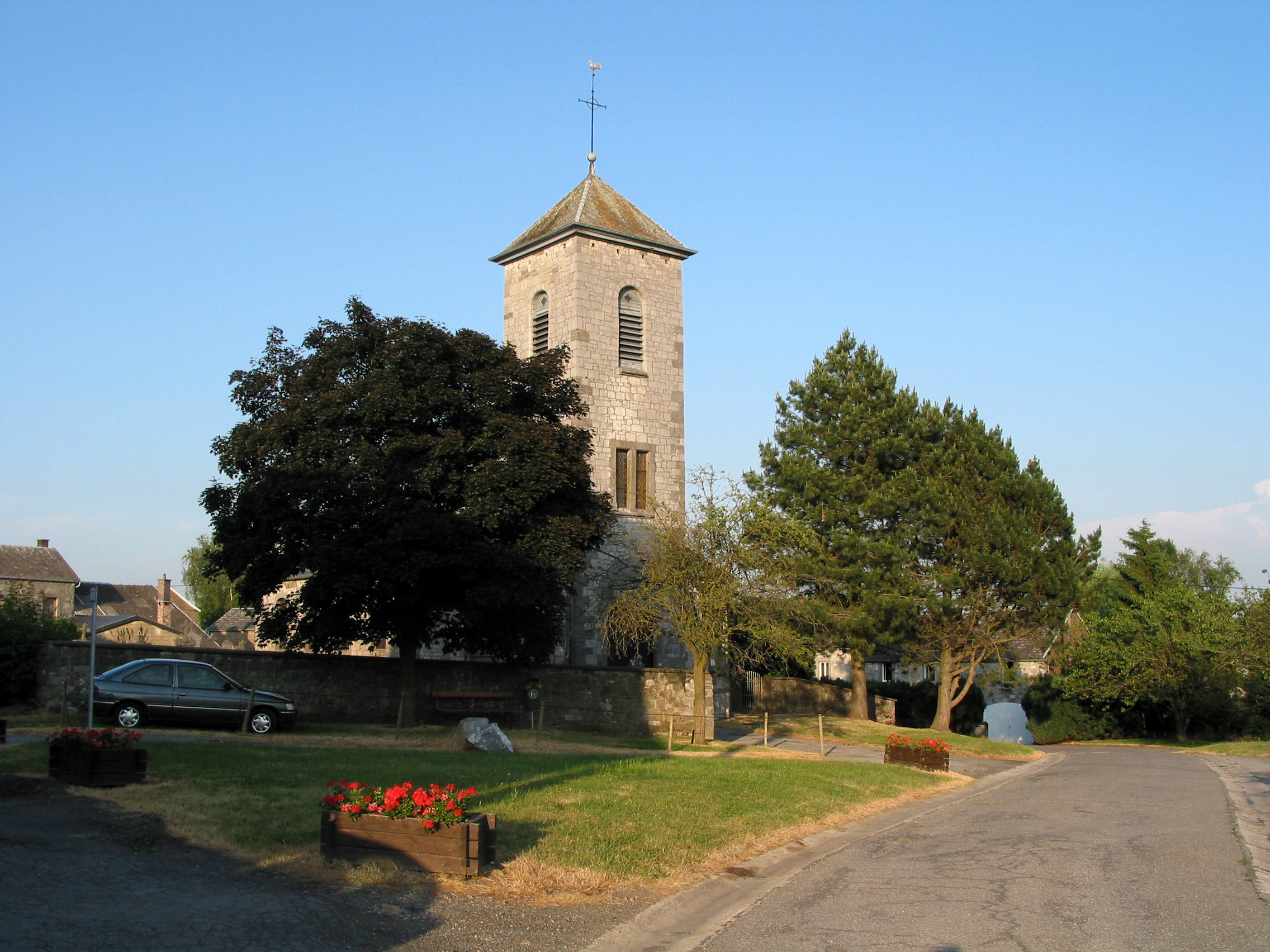 Bois-et-Borsu (Belgium), the St. Lambertus church (XIIth century).